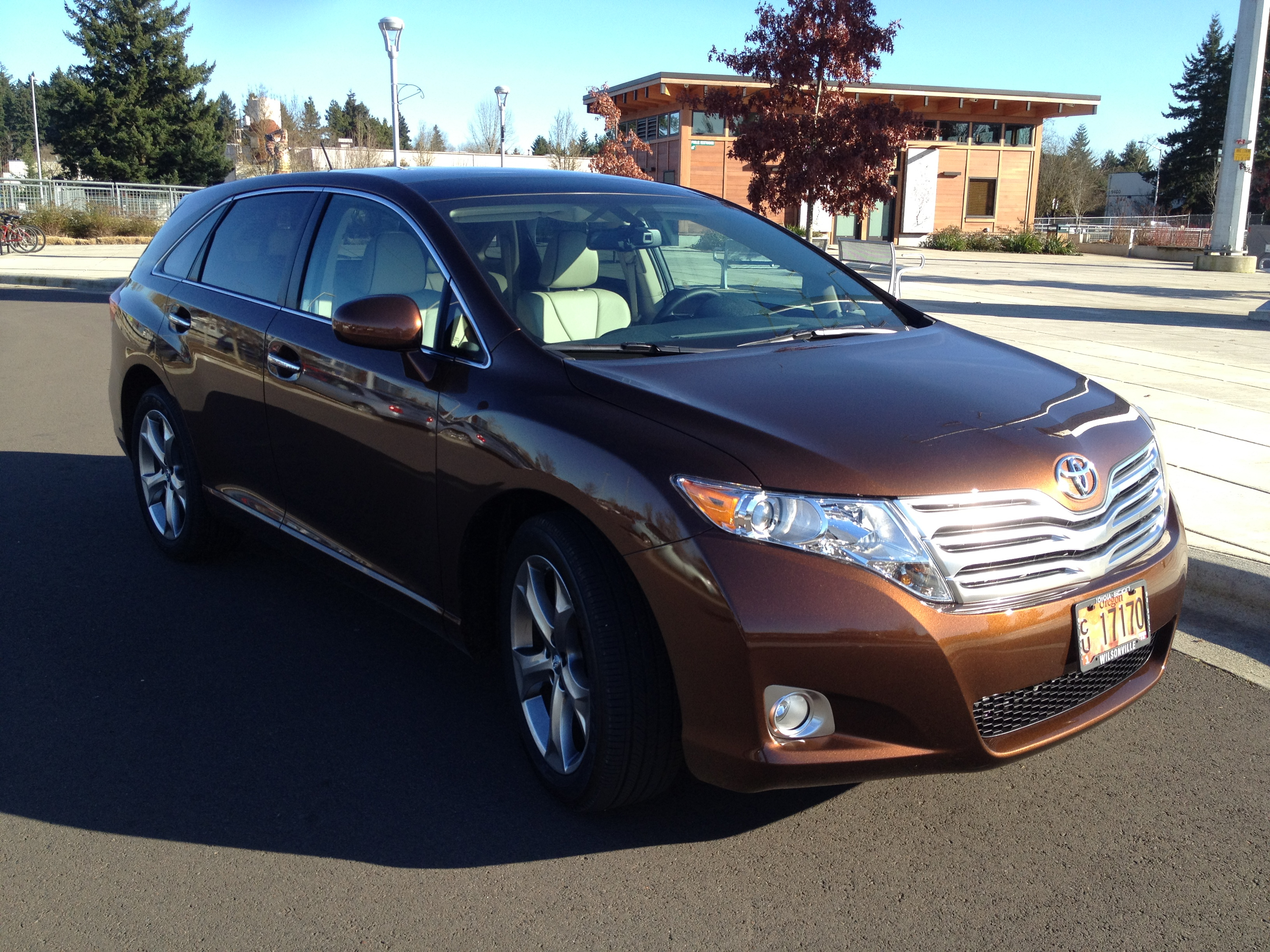 2012 Toyota Venza Limited AWD, Sunset Bronze Mica